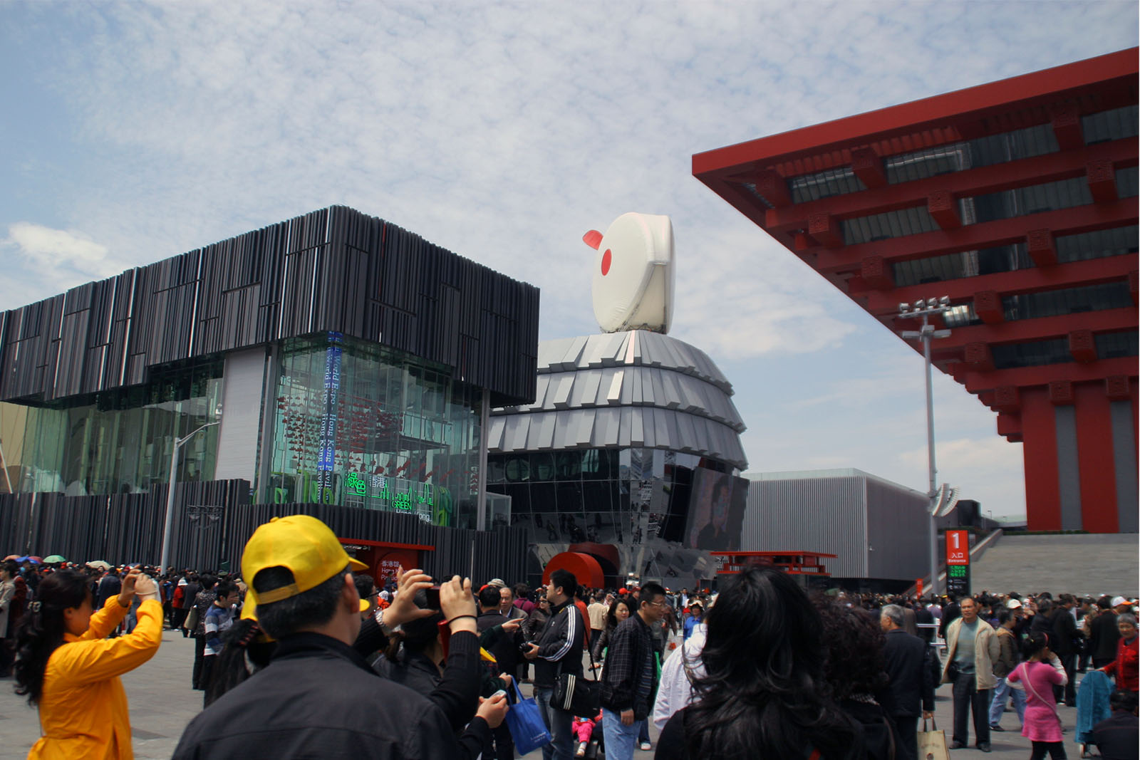 China Pavilion of Expo 2010 (right) Hong Kong Pavilion of Expo 2010 (left) Macau Pavilion of Expo 2010 (middle)